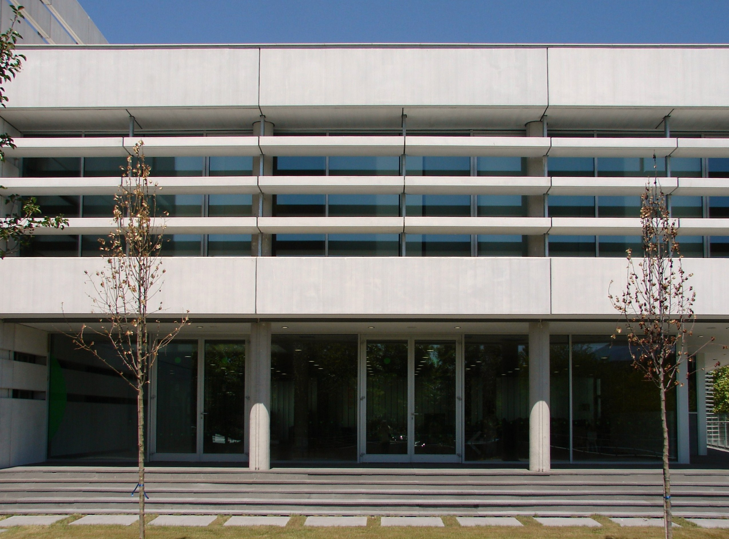 Biblioteca Municipal - Public Library - Lope de Vega (Tres Cantos) -Madrid